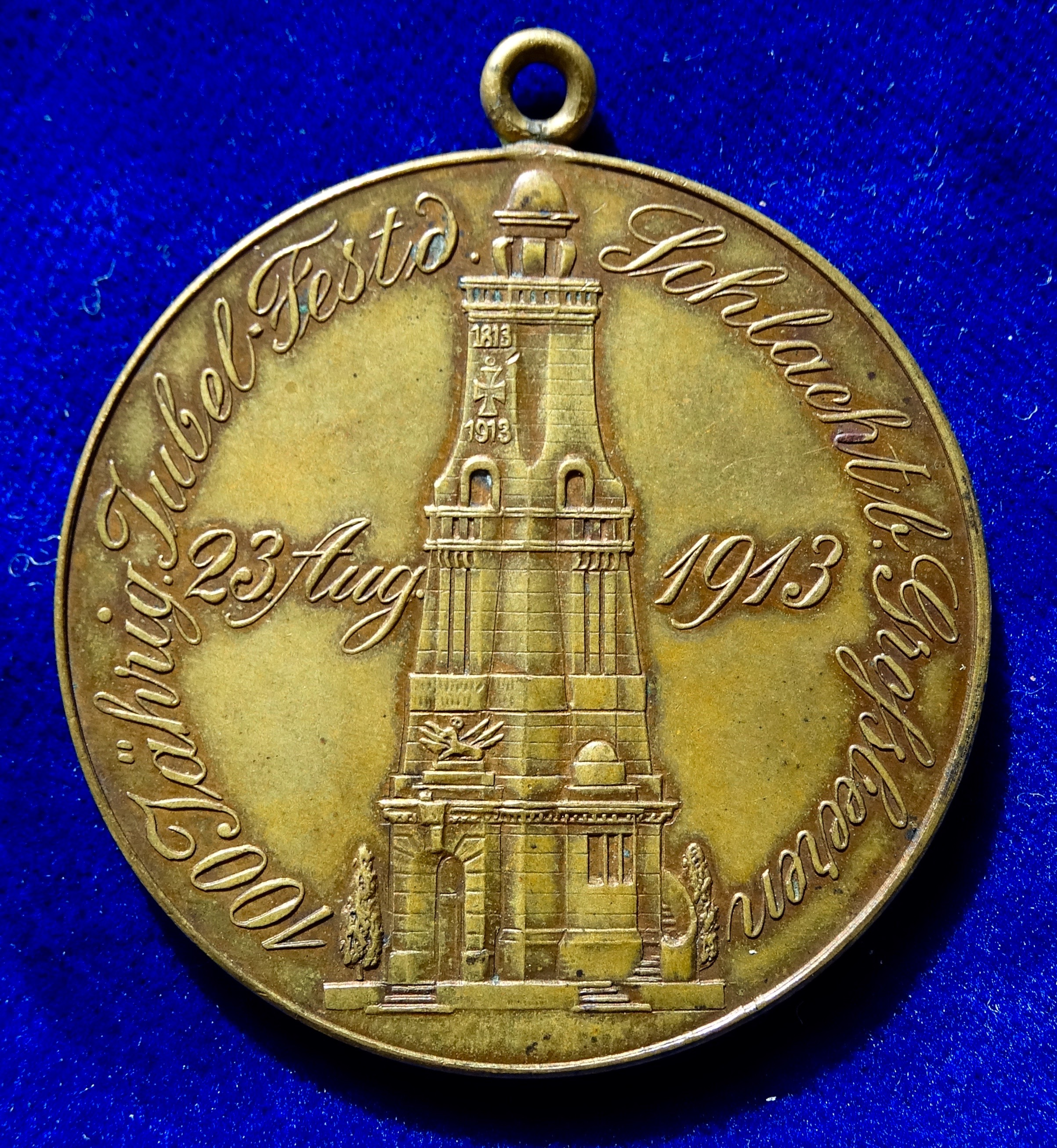 In the Battle of Großbeeren (23 August 1813) an allied Prussian-Swedish army under Crown Prince Charles John – formerly Marshal of France Jean-Baptiste Bernadotte – defeated the French under Marshal Oudinot. Bronze medal for the inauguration of the memorial tower for the 100th anniversary of that battle. D.= 46 mm. Wilhelm II, German Emperor, King of Prussia, 1888-1918 Portrait in uniform l., around: "Im Jubiläumsjahr Kaiser Wilhelms · 1888 - 1913 ·"/The Art Nouveau monument dividing the date "23 Aug. 1813", around: "100. Jährig. Jubel·Fest d. Schlacht b. Großbeeren". Mint: (Otto) Oertel Berlin Condition: EXTREMELY FINE, little tarnish.